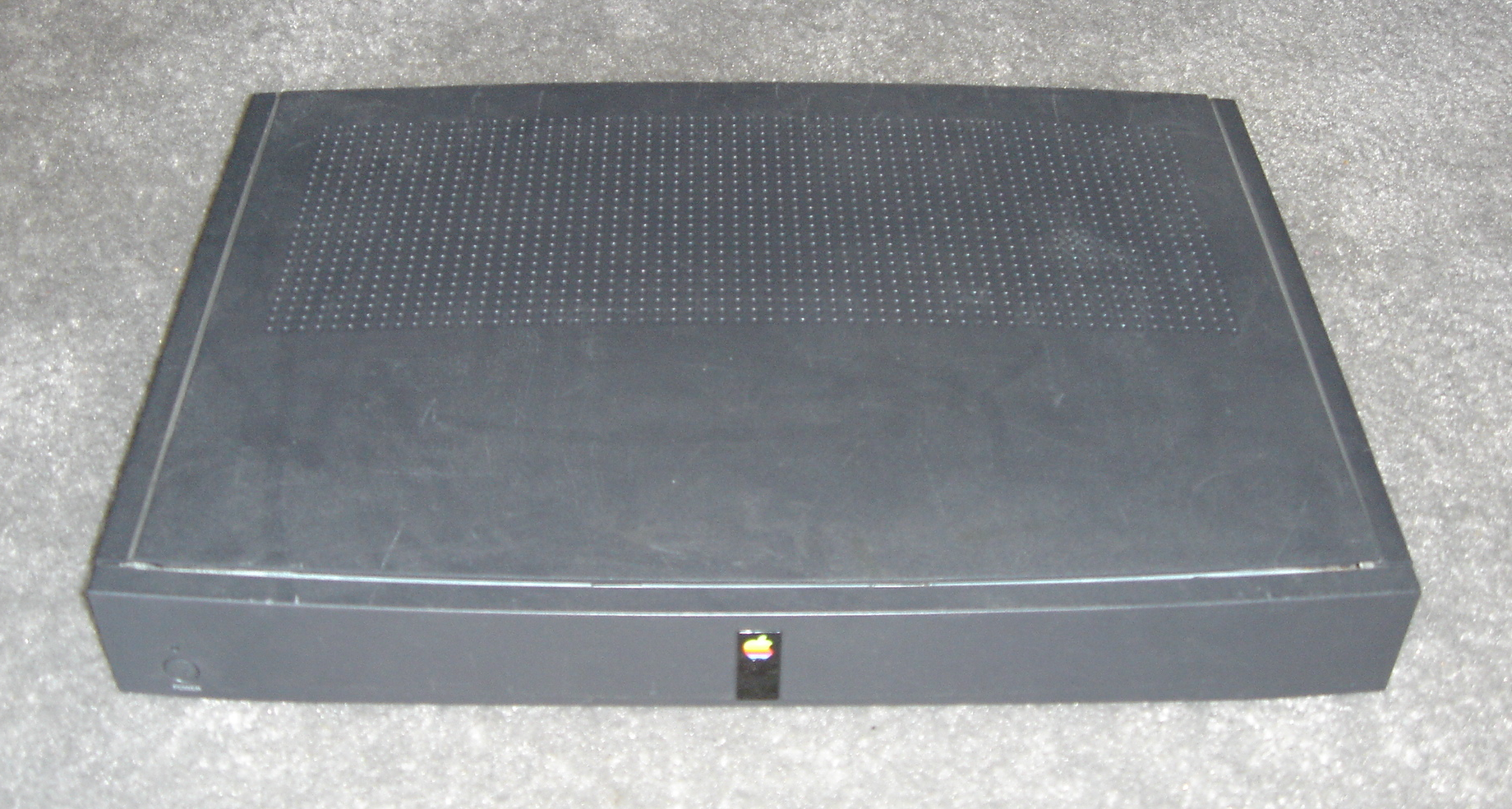 Photo of the Apple Interactive Television Box